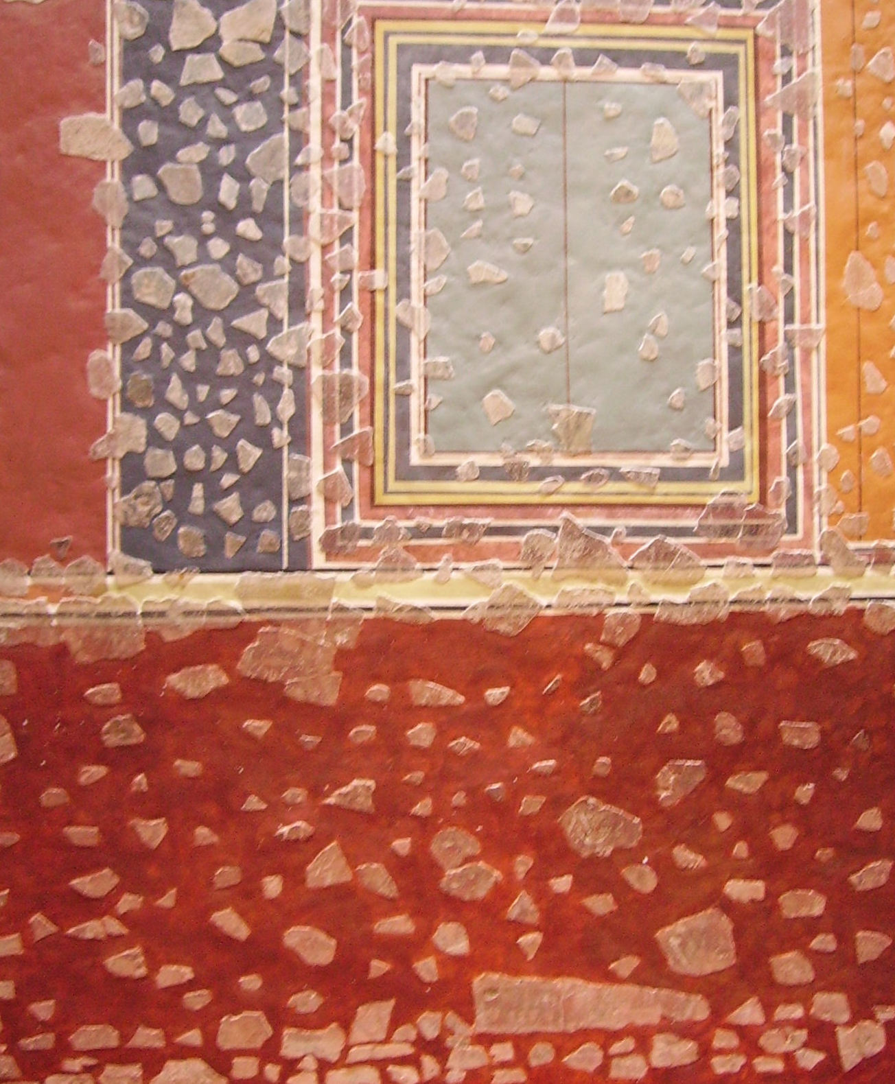 view of Fishbourne Roman Palace in West Sussex, United Kingdom